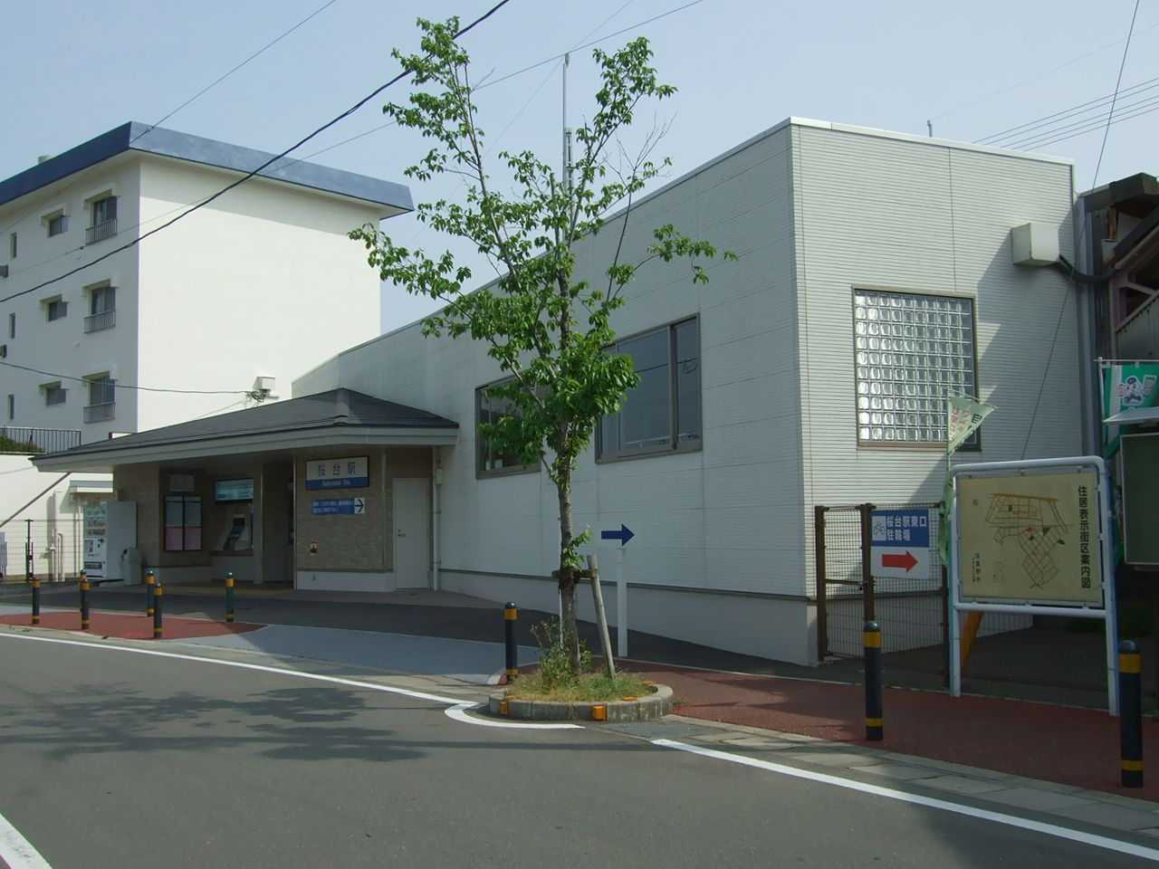 Sakuradai Station, Nishitetsu Tenjin Omuta Line.